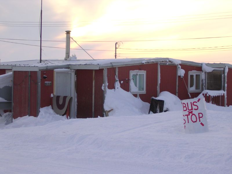 Kugaaruk bus stop